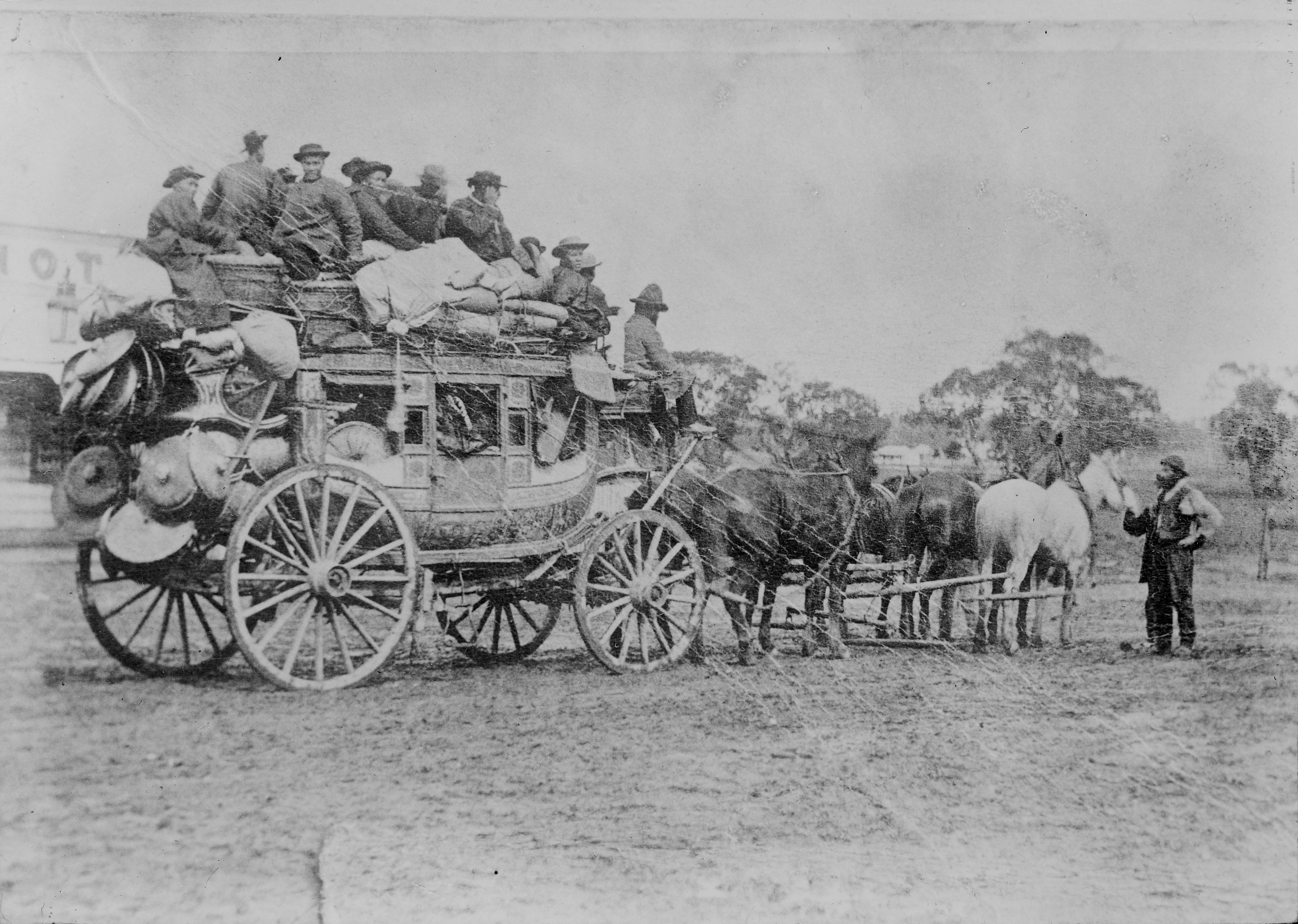 Stage coach laden with luggage and many Chinese people en rout to the gold fields